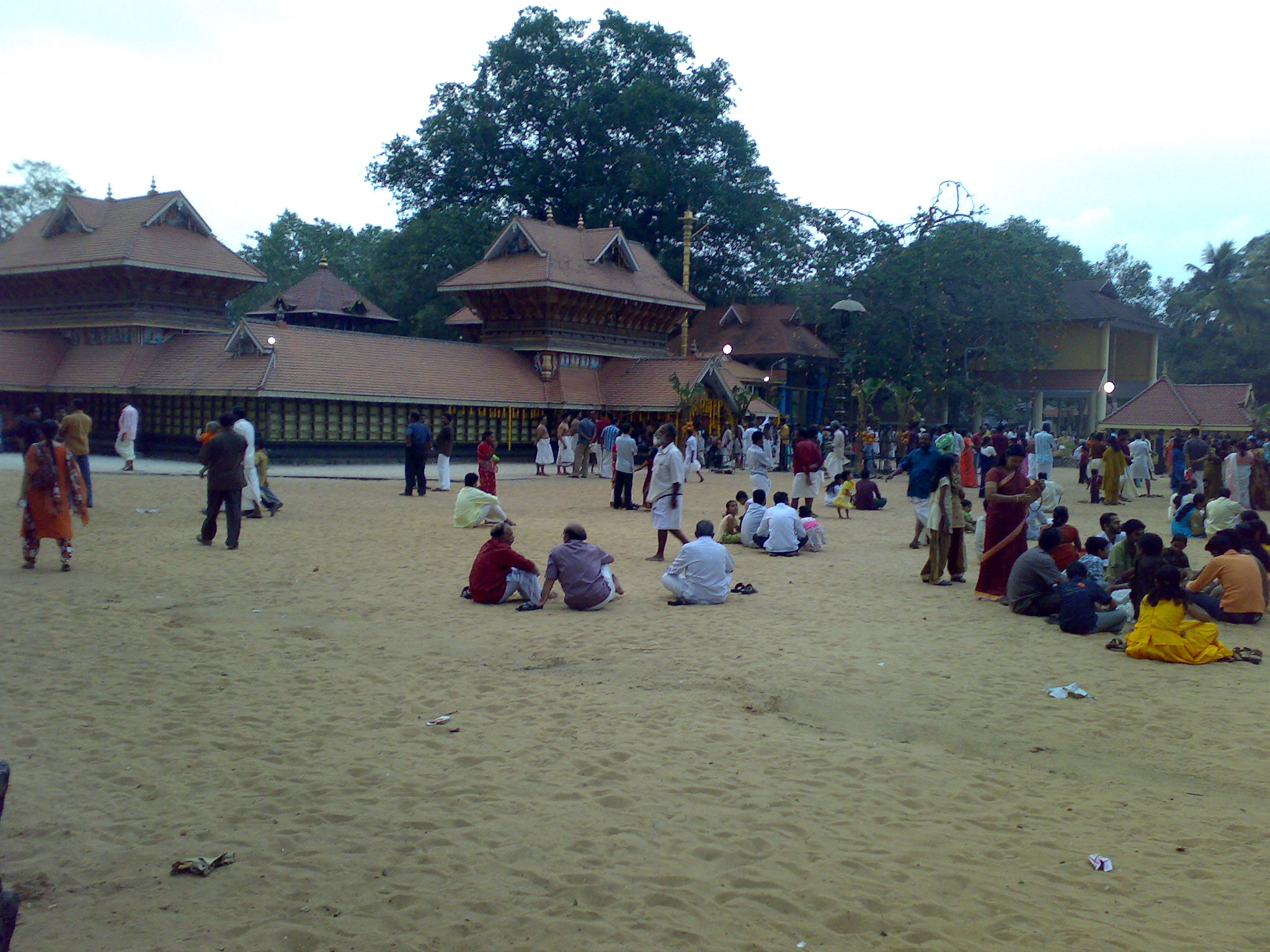 Sarkara Devi Temple Photo Taken during Kaliyoot festival in 2010 March 05.